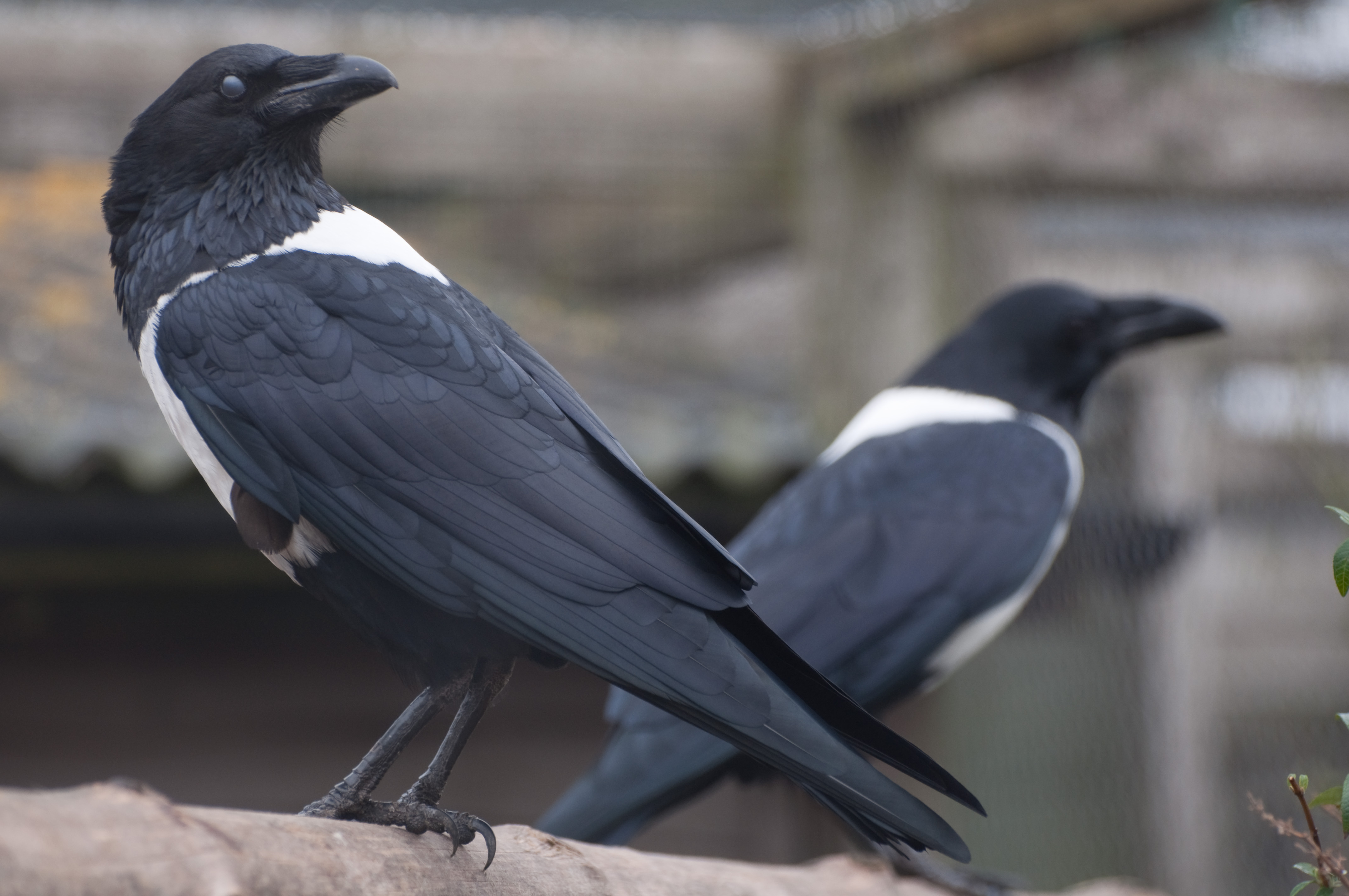 Two Pied Crows at Hamerton Zoo, Cambridgeshire, England.